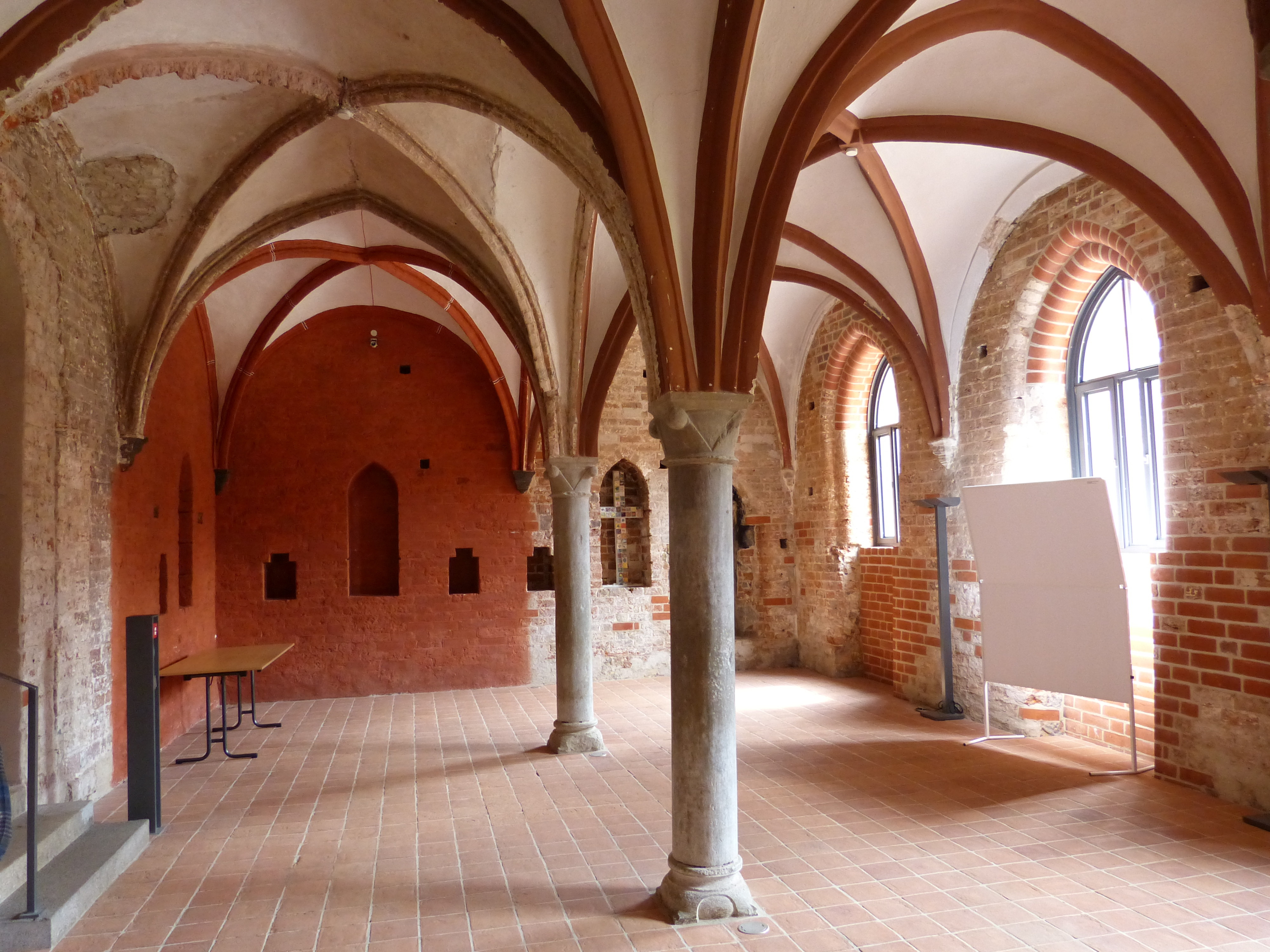 Dobbertin ( Mecklenburg ). Monastery: Refectory ( 13th century ).